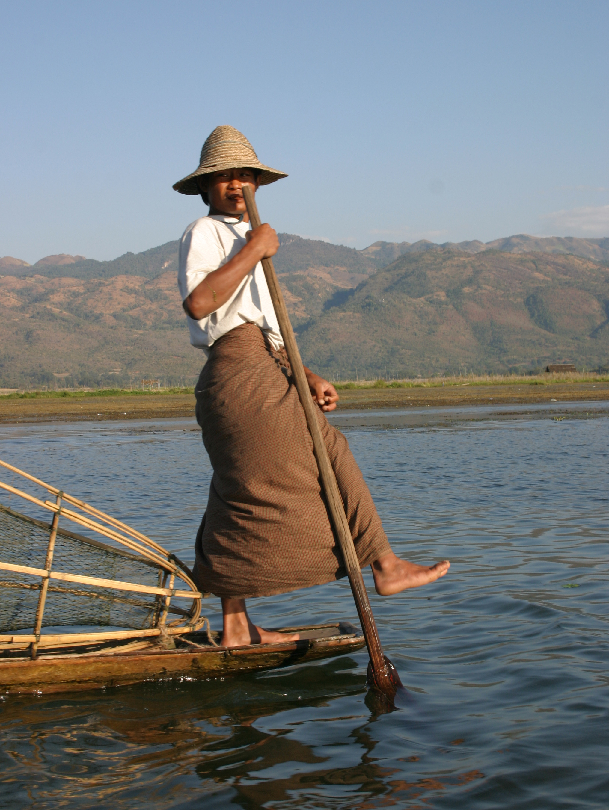 One leg rowers at Inle-See in Myanmar.